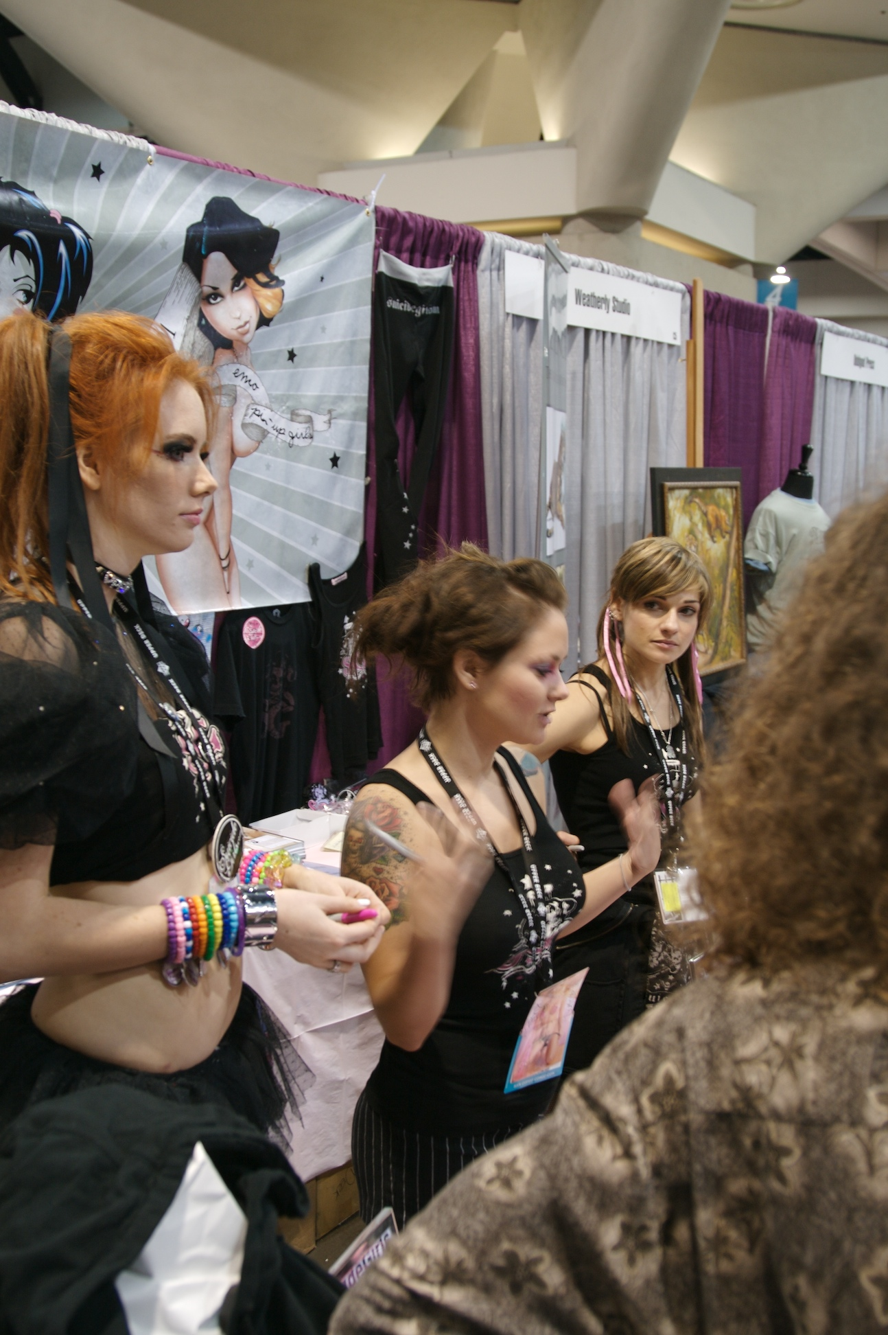 Sam Doumit (On the right) with two suicide girls